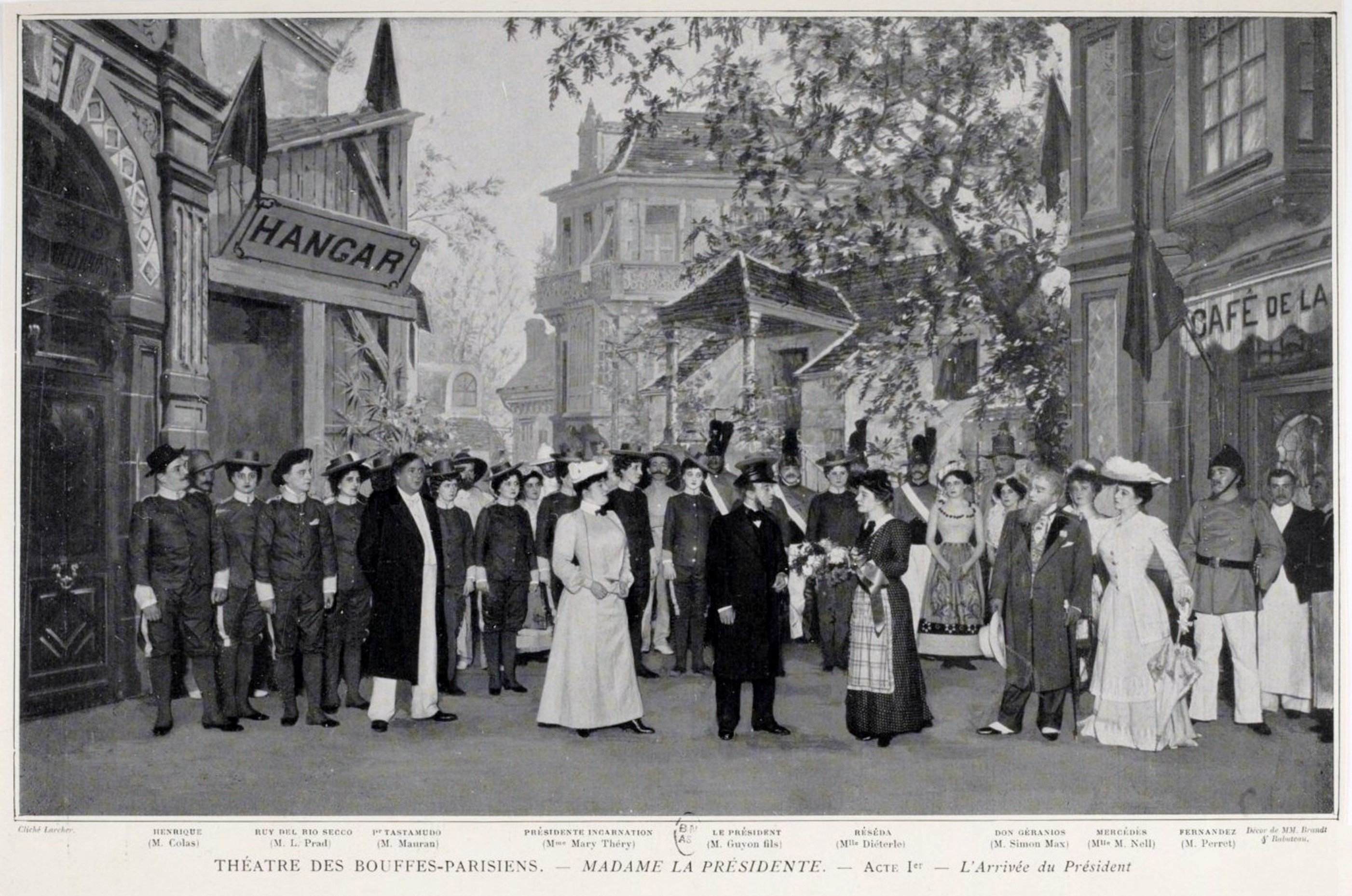 Amélie Diéterle is a French actress born in Strasbourg on February 20, 1871 and died in Cannes on January 20, 1941. She was legitimated in Paris in 1892 by Captain Louis Laurent, Knight of the Legion of Honor. Amélie Diéterle married in Vallauris on June 16th, 1930 with André Simon (1877-1965). Amélie Diéterle plays mainly at the Théâtre des Variétés in Paris during the Belle Époque. Amélie Diéterle plays the role of Réséda in the theatre play, Madame la Présidente, of Paul Ferrier and Auguste Germain at the Théâtre des Bouffes-Parisiens in 1902.